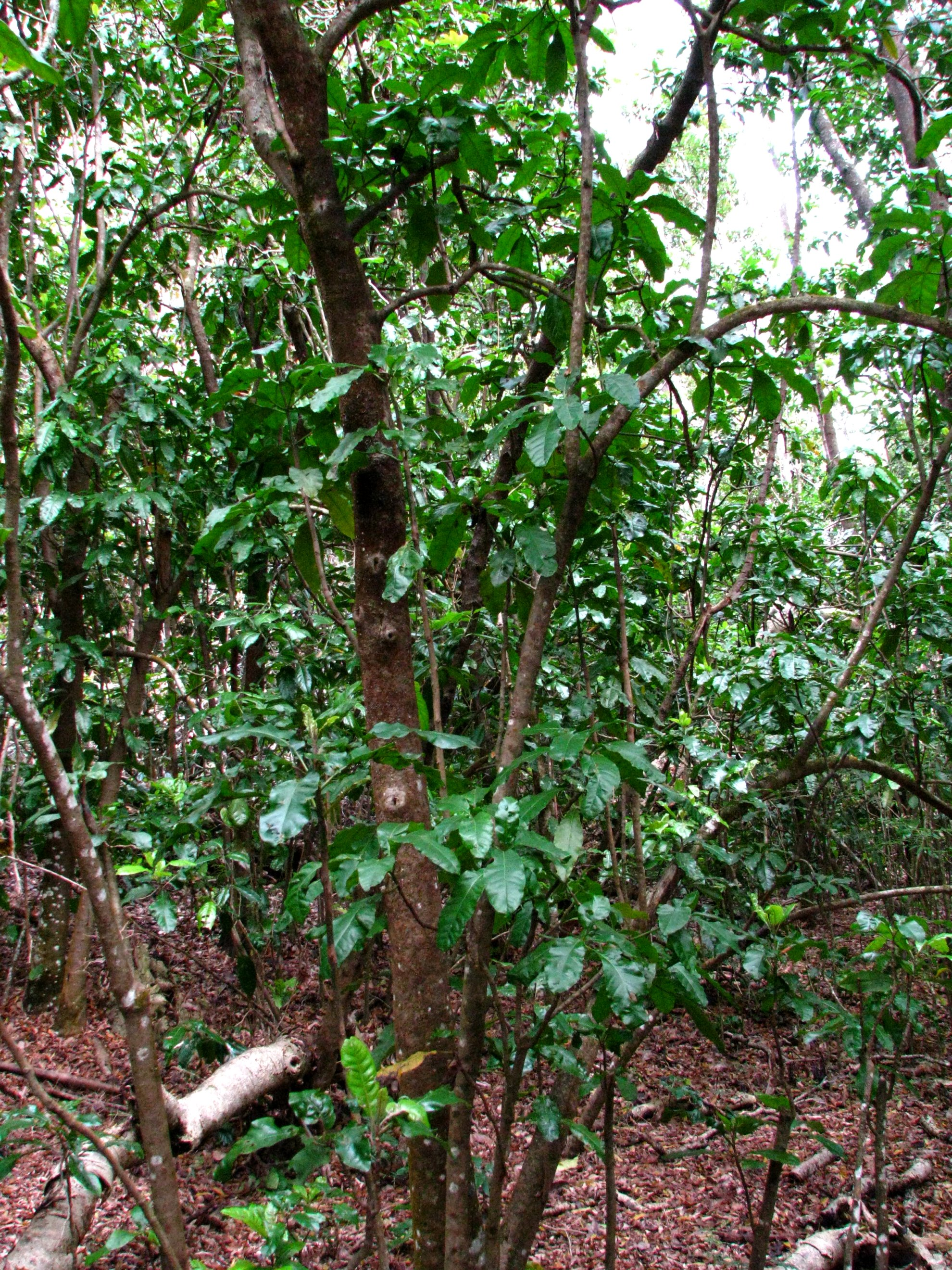 Pāpala, Pāpala kēpau Australasian catchbird tree, Australasian catchbirdtree Nyctaginaceae Endemic to the Hawaiian Islands (Hawaiʻi Island only) Kīpukapuala, Hawaiʻi Island